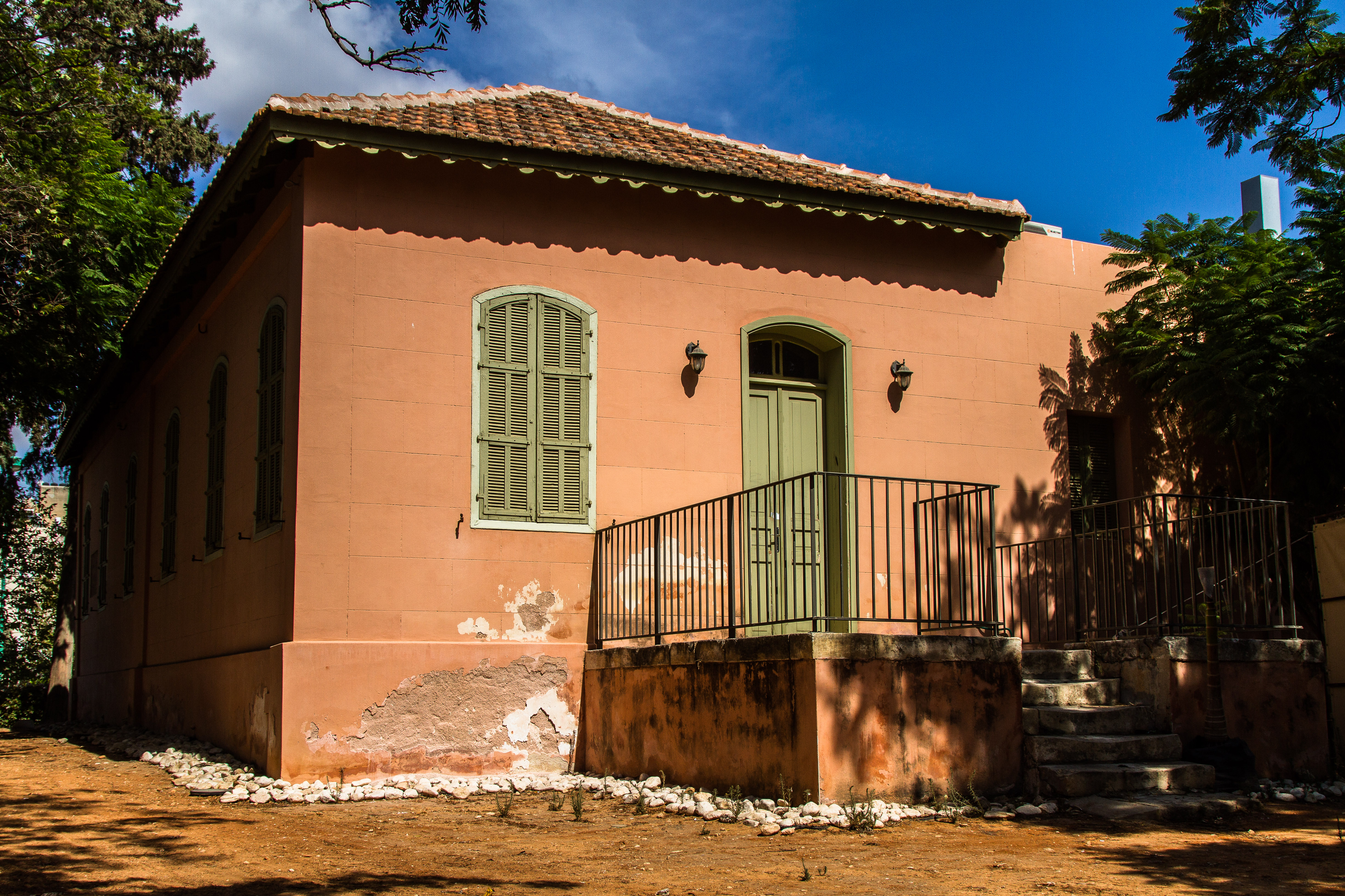 Beit Feinberg Museum in Hadera, Israel